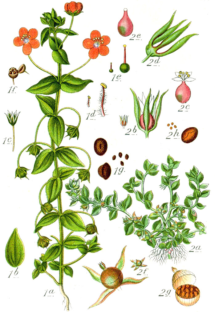 1: Anagallis arvensis L., syn. Anagallis phoenicea (Gouan) Scop. 2: Anagallis minima (L.) E. H. L. Krause Original Caption 1. Echtes Gauchheil, Anagallis phoenicea 2. Kleinling, A. minima